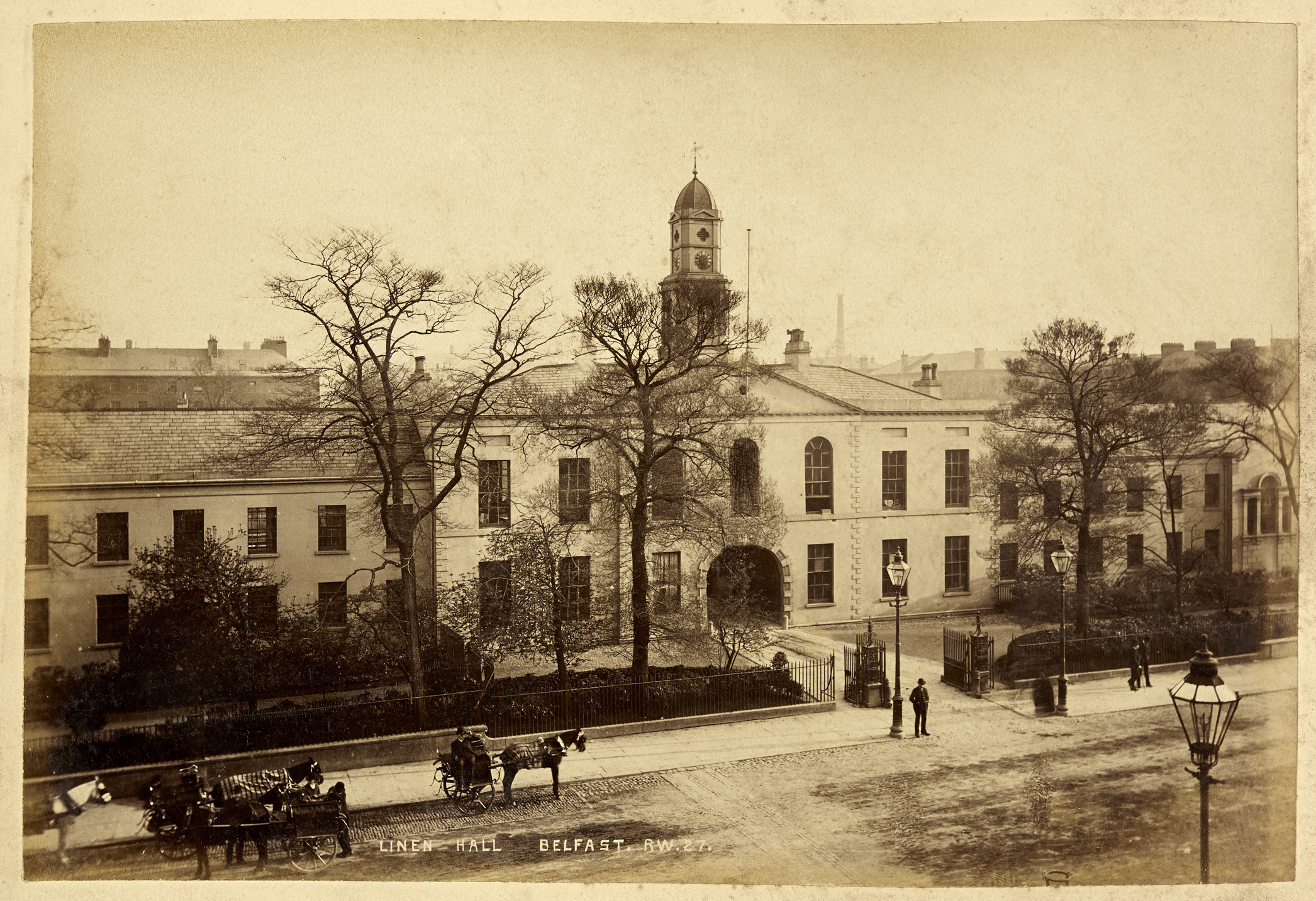 Creator: R. Welch (Photographer) Date: c.1888 Original Format: Photographic Print Description: Linen Hall, Belfast PRONI Ref: D1403_1~008~A Copying and copyright: Please For Copy Orders, contact: For fees and charges